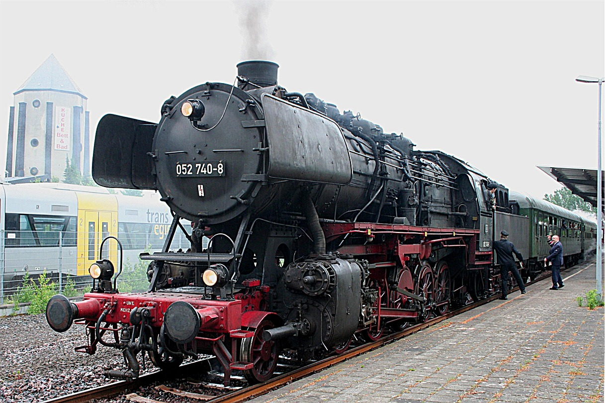 Steam locomotive DR Class 50 at Mayen Ost train station.